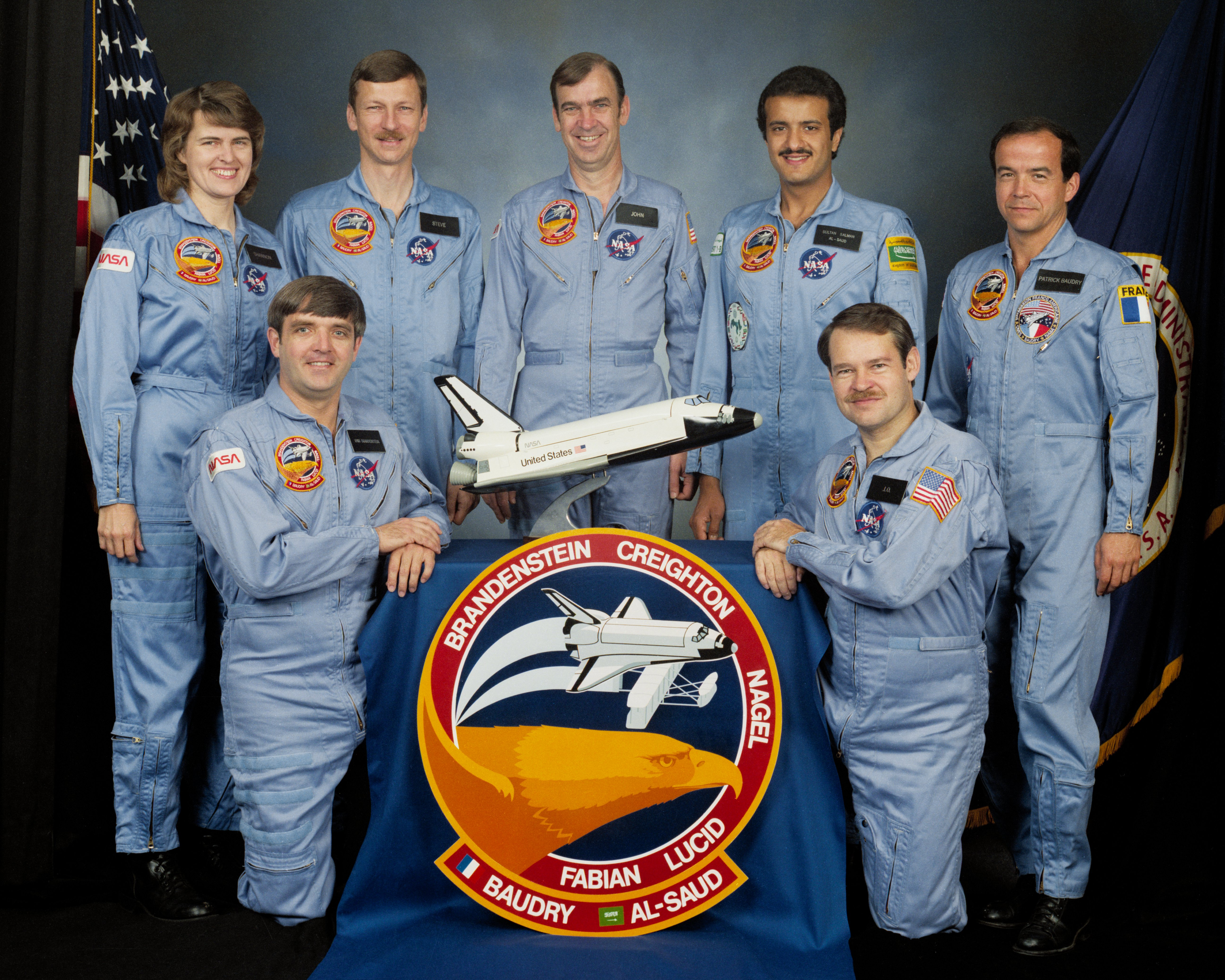 Portrait of STS 51-G crew. Kneeling in front are Astronauts Daniel C. Brandenstein (left) and John O. Creighton, commander and pilot, respectively. Astronauts Shannon W. Lucid, Steven R. Nagel, and John M. Fabian, mission specialist (l.-r.) joing Payload specialists Sultan Salman Abdelazize Al-Saud (second right) and Patrick Baudry on the back row. Image ID:S85-32877